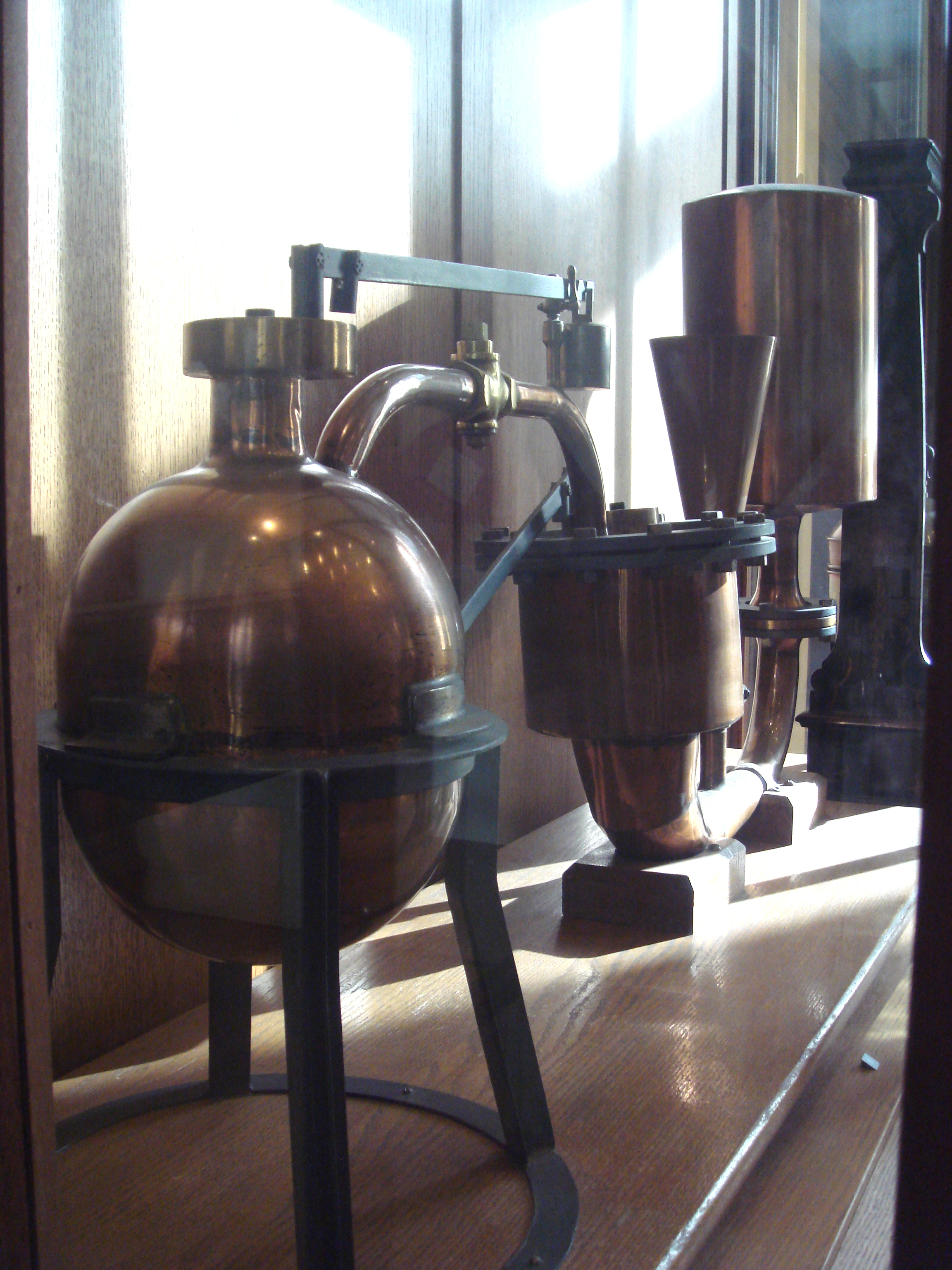 Steam_driven_water_lifting_machine_by_Papin_1707_reconstitution.